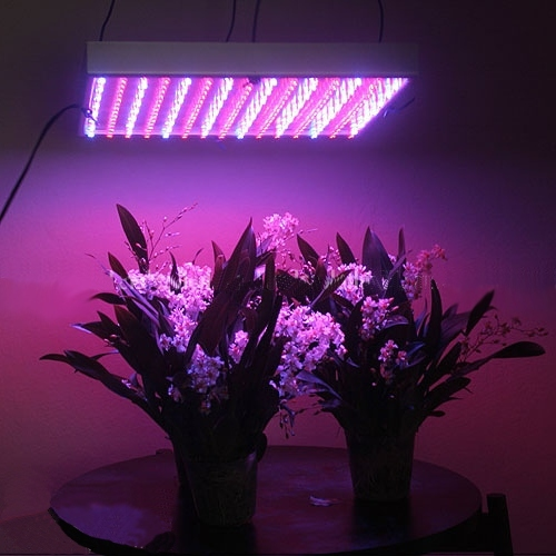 LED grow lights with two potted plants